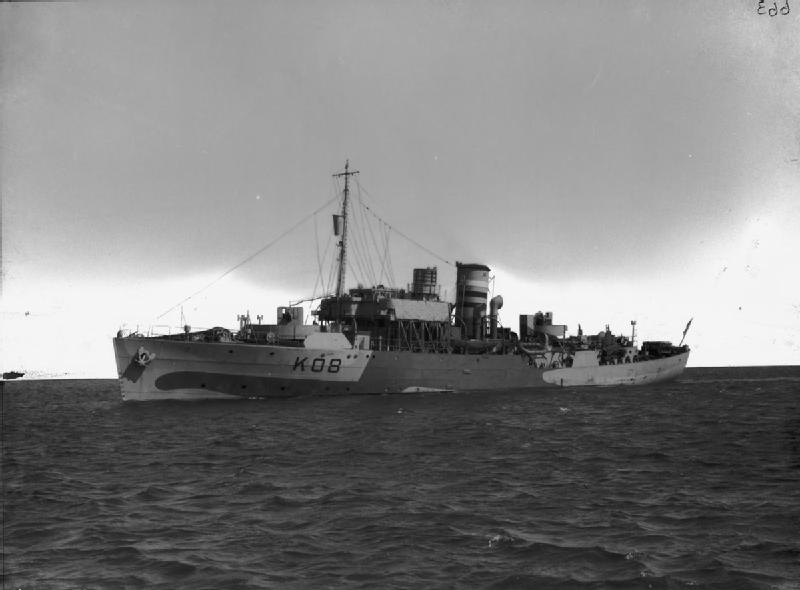 Photograph of British Flower class corvette HMS Spiraea (K08).